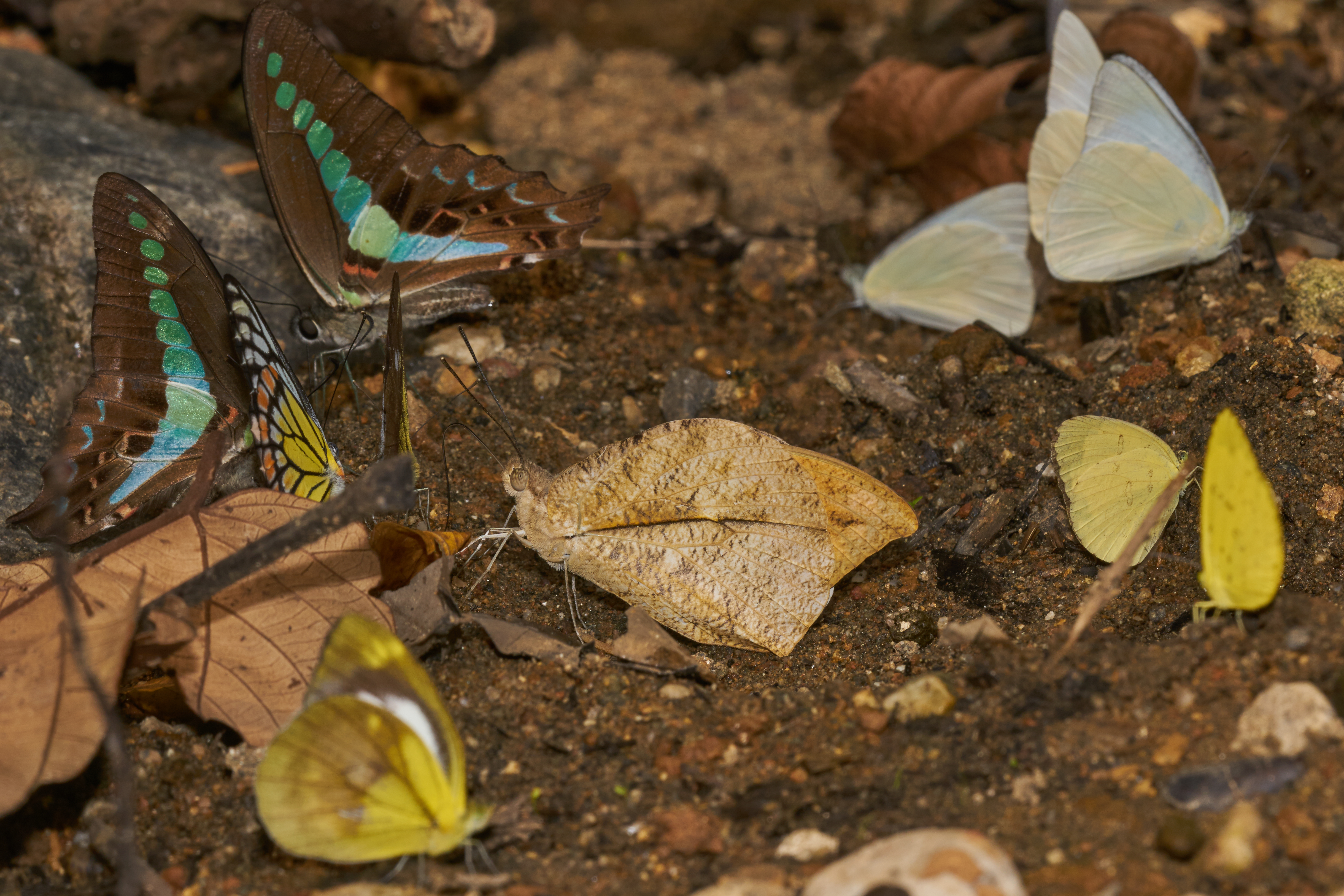 Hebomoia glaucippe, Great Orange-tip, is a butterfly belonging to the Pieridae family, that is the yellows and whites. Here it is mud-puddling from the dry stream bed at Aralam Wildlife Sanctuary, Kerala, India. The other butterflies in the background are Graphium teredon (Narrow-banded Bluebottle), Prioneris sita (Painted Sawtooth), Cepora nadina (Lesser Gull), Appias albina (Common Albatross), Eurema blanda (Three-spot Grass Yellow) and Eurema hecabe (Common Grass Yellow).